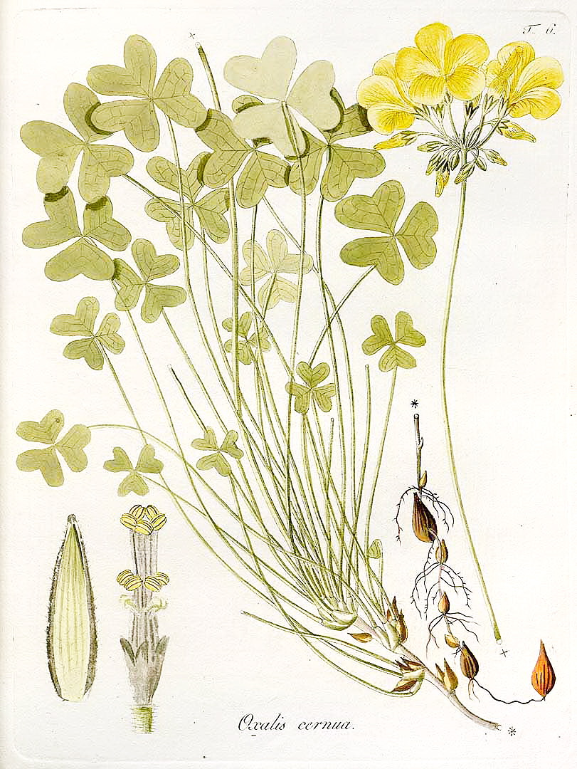 Plate 6 from Oxalis monographia, iconibus illustrate by Nikolaus Josef Jacquin (Vienna, 1794). Botanical study of African woodsorrel [Oxalis pes-caprae] a plant native to South Africa. The text accompanying this illustration notes: “Patria. Promontorium bonae spei” [Cape of Good Hope]. The plate contains inset details of flower, bulbs, flower bud and stamens.